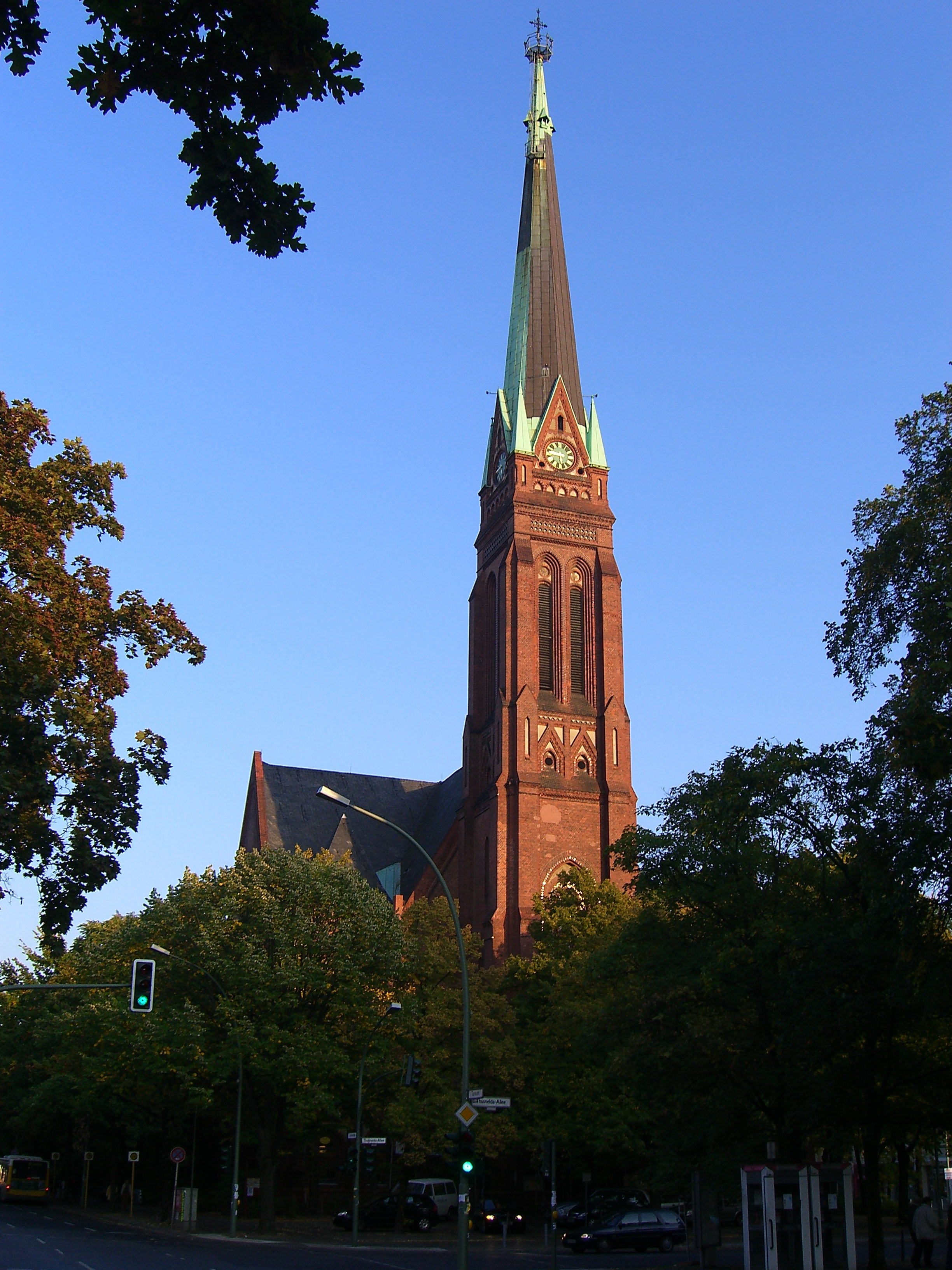 Evangelic church "Heilandskirche" in Berlin-Moabit.